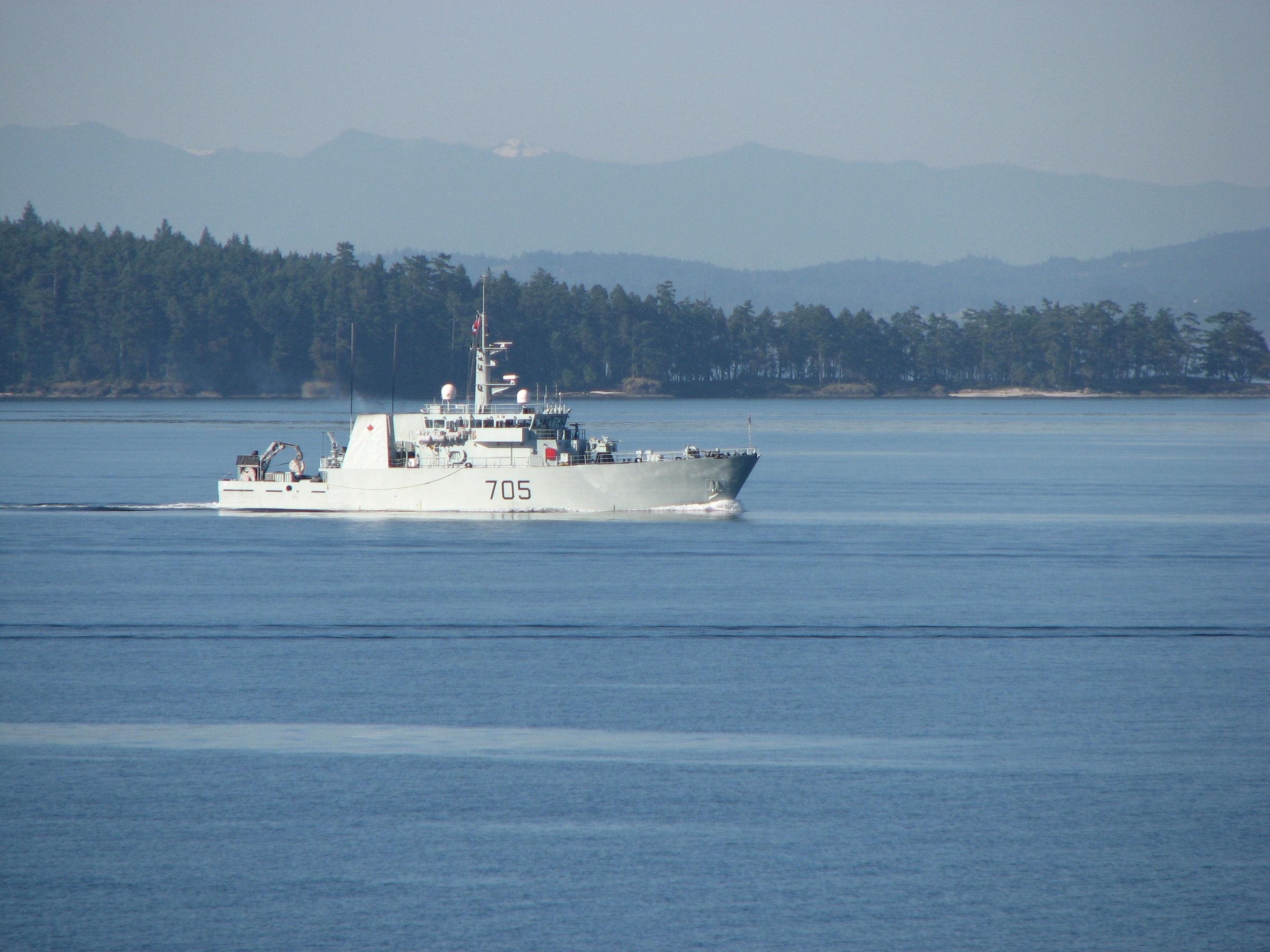 The Canadian Naval Ship HMCS Whitehorse